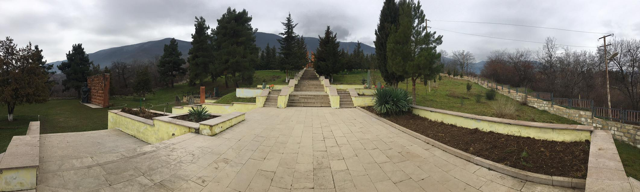 Hadrout